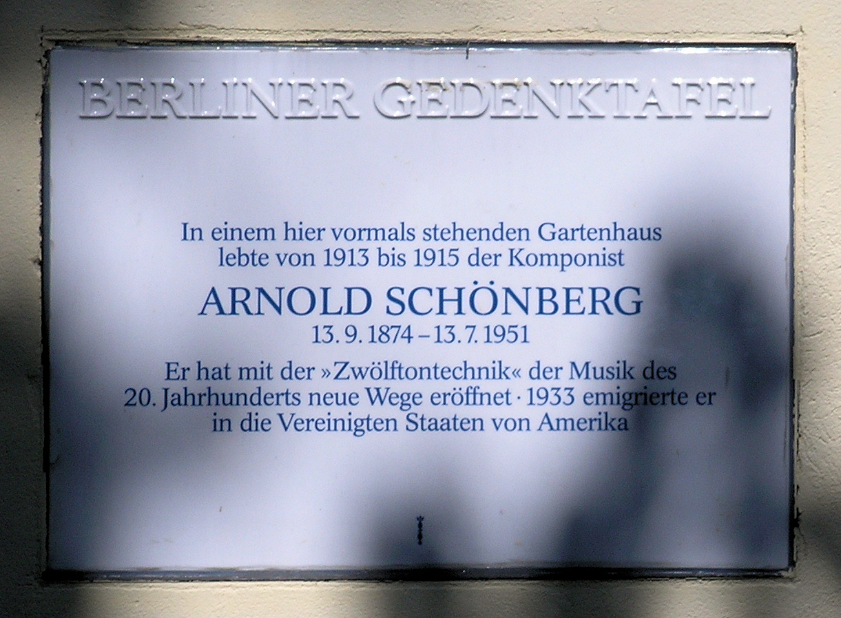 Berlin memorial plaque, Arnold Schönberg, Sembritzkistraße 33, Berlin-Steglitz, Germany